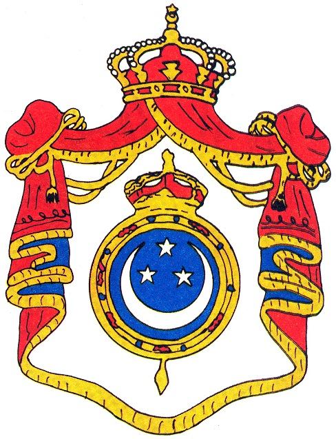 Coat of arms of the Kingdom of Egypt, adopted by royal decree on 10 December 1923, and replaced by the republican eagle on 29 June 1953.